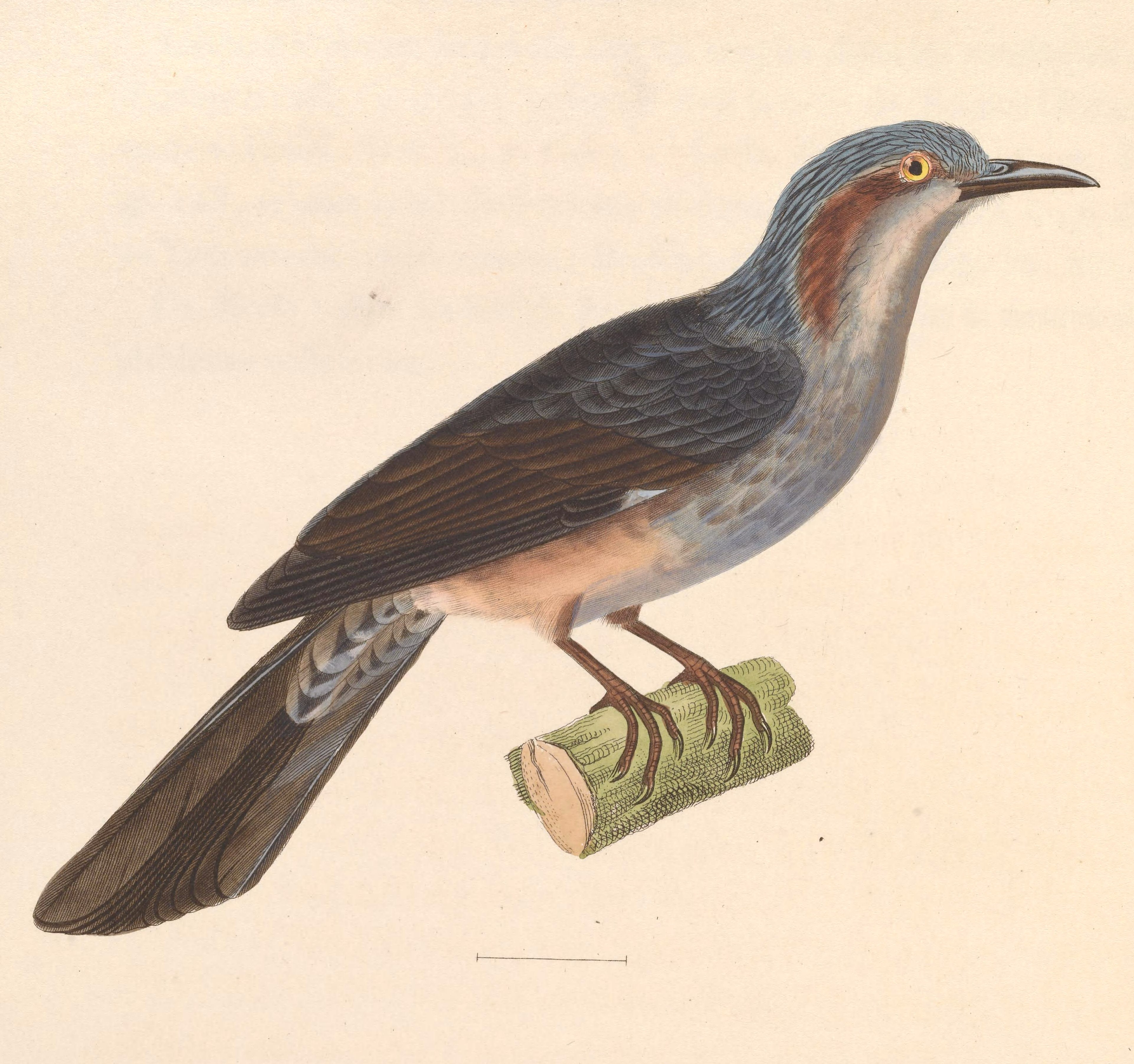 « Turdus amaurotis » = Hypsipetes amaurotis (Brown-eared Bulbul)